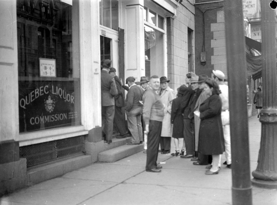 We see a line of customers waiting for their turn to enter the store in the Quebec Liquor Commission located rue Saint-Denis in Montreal.